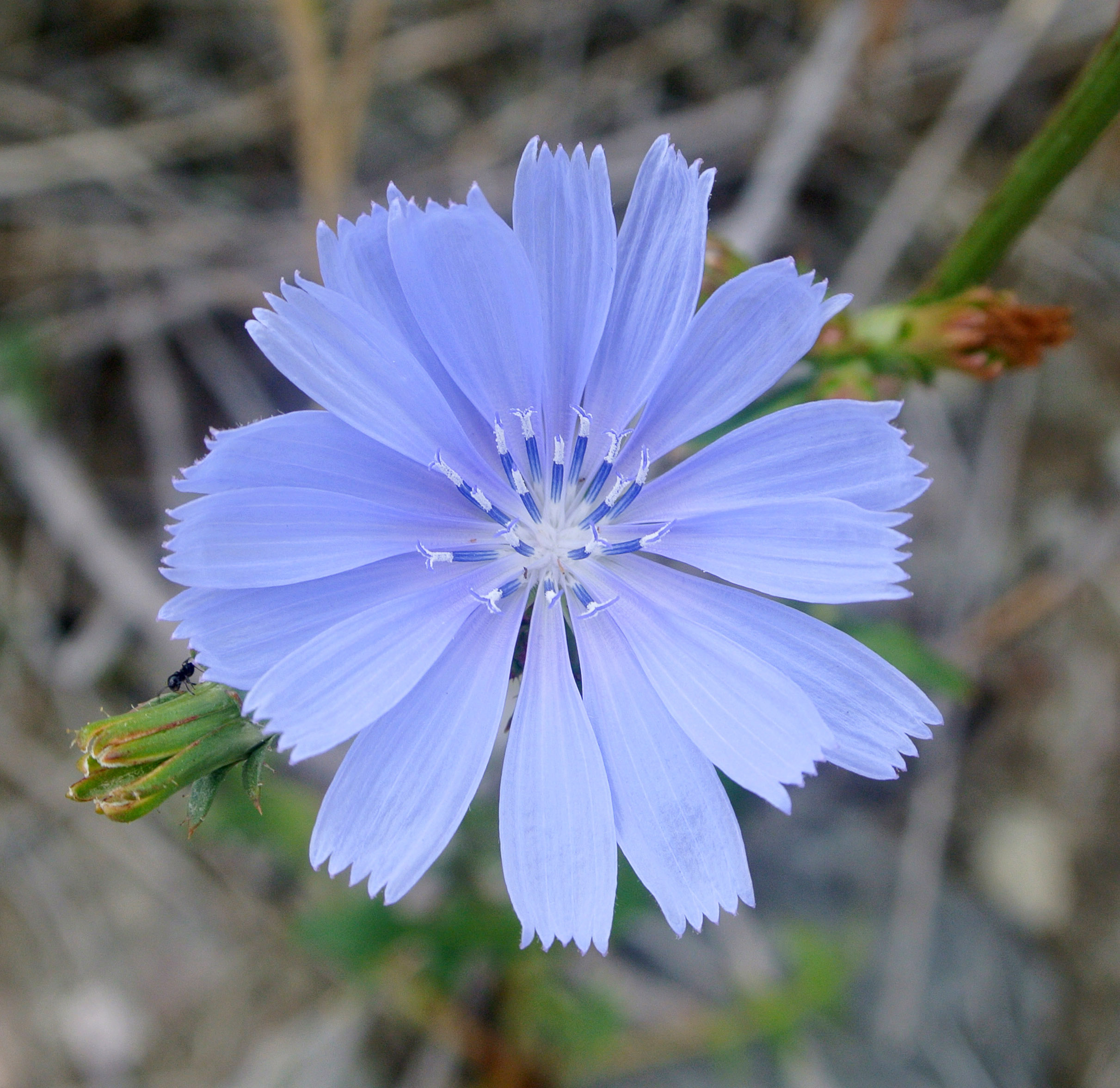 Cichorium intybus along SR 93, Lockport, New York.